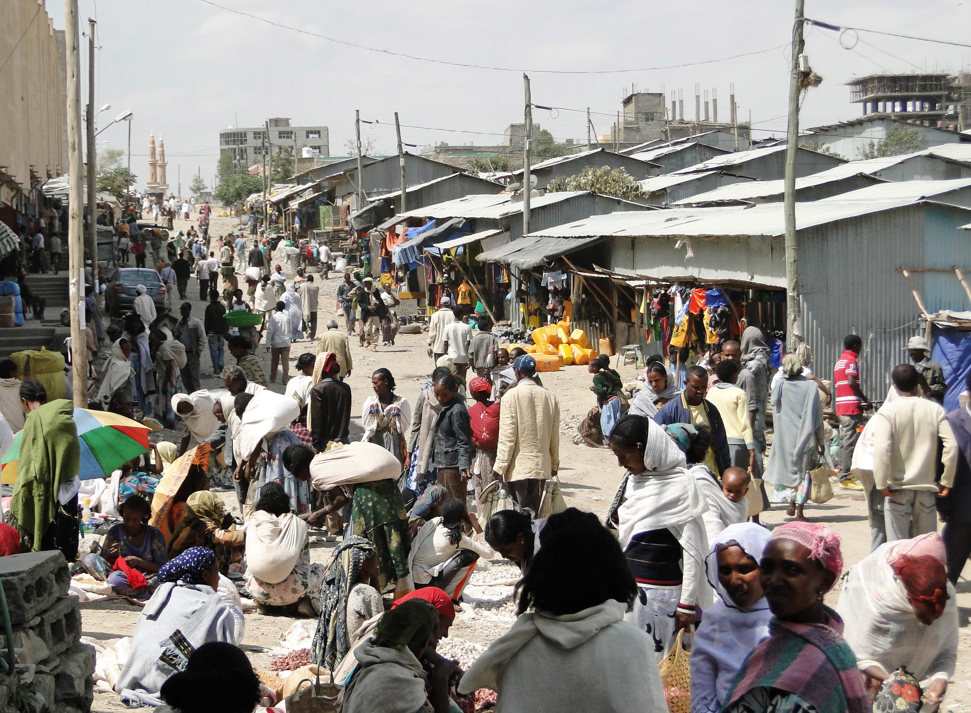 Monday market in Mek'ele, Ethiopia